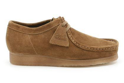 Picture of Clarks Wallabee shoe in Cola Suede